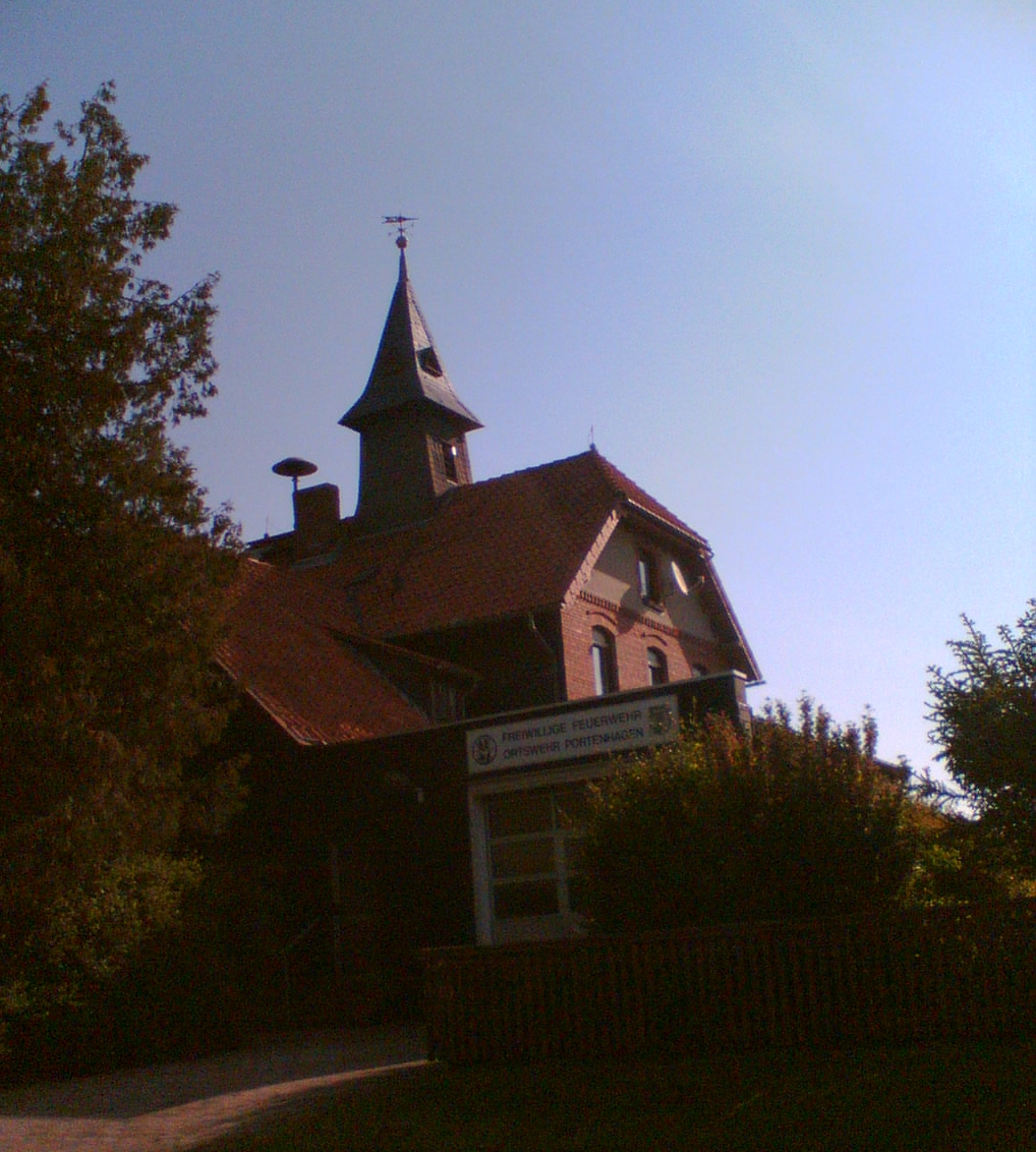 fire station in Portenhagen Germany